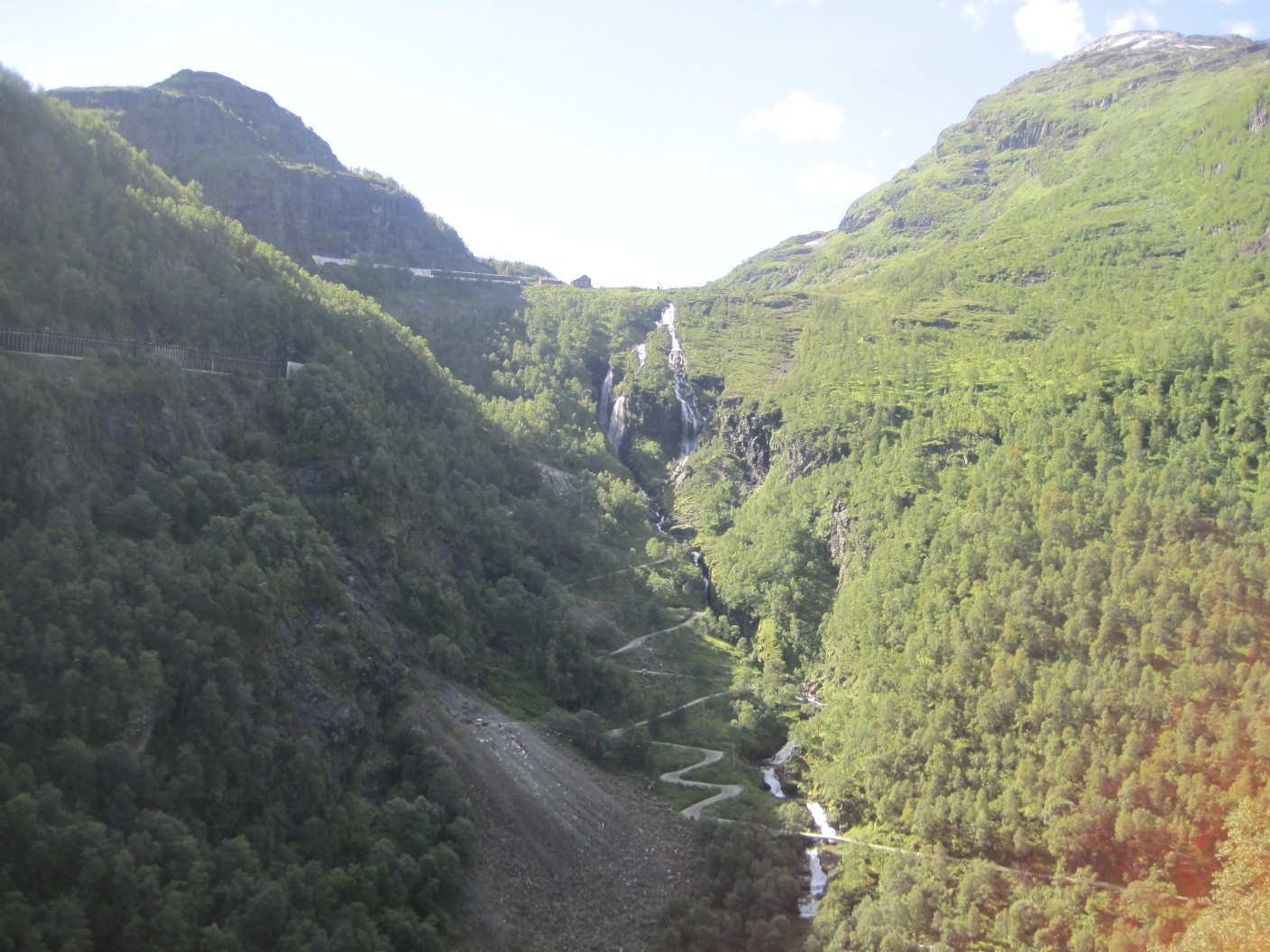 The Rallarvegen trail, Norway, in hairpin bends down to Flåmsdalen valley.